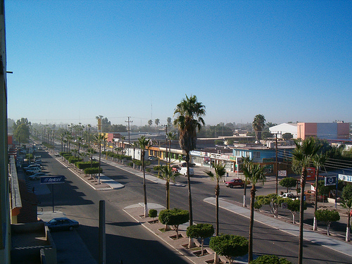 City view of Ciudad Constitución, Baja California Sur (Mexico)